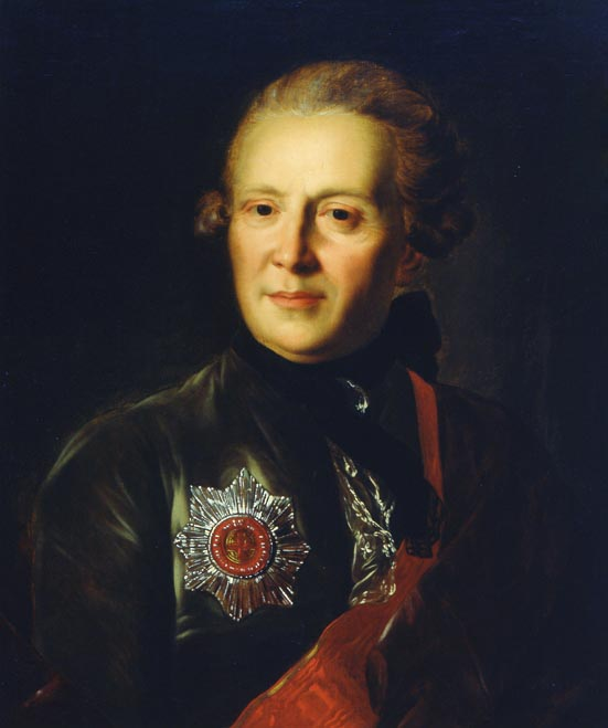 Aleksandr Petrovich Sumarokov (November 25, 1717 – October 12, 1777) was a Russian poet and playwright